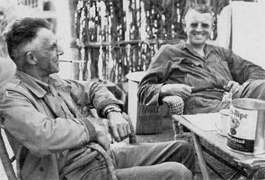 General Stilwell and Merrill.